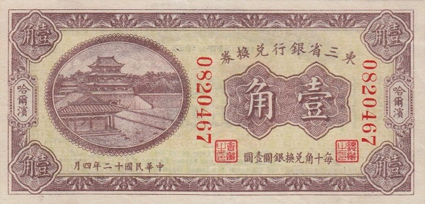 A Chinese provincial banknote issued by a provincial Manchurian bank for circulation in the (3 North-Eastern) provinces of Jilin, Liaoning, and Heilongjiang during the period that the government of the Republic of China still administered the Chinese Mainland.